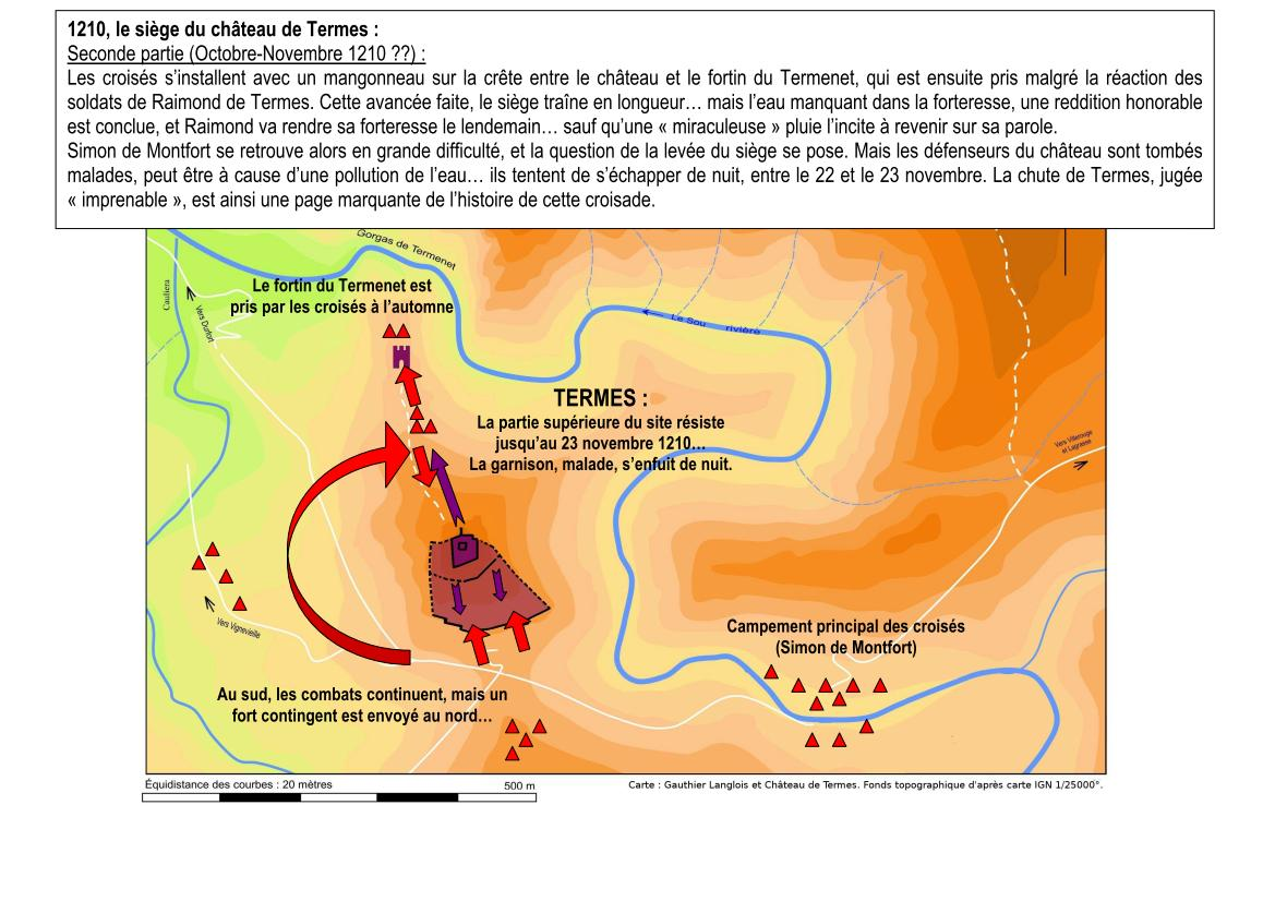 Second part of a map wich tries to explain the four months long siege of Termes Castle in 1210 during the Albigensian crusade. The crusaders tries to come closer on the north side of the castle. After they abatined the fall of the little Termenet fortification, they can come closer to the castle, and lock the ways to water. After all the defenders were sick, the castle was taken on 23rd november 1210. (second of two maps). With french language on it.